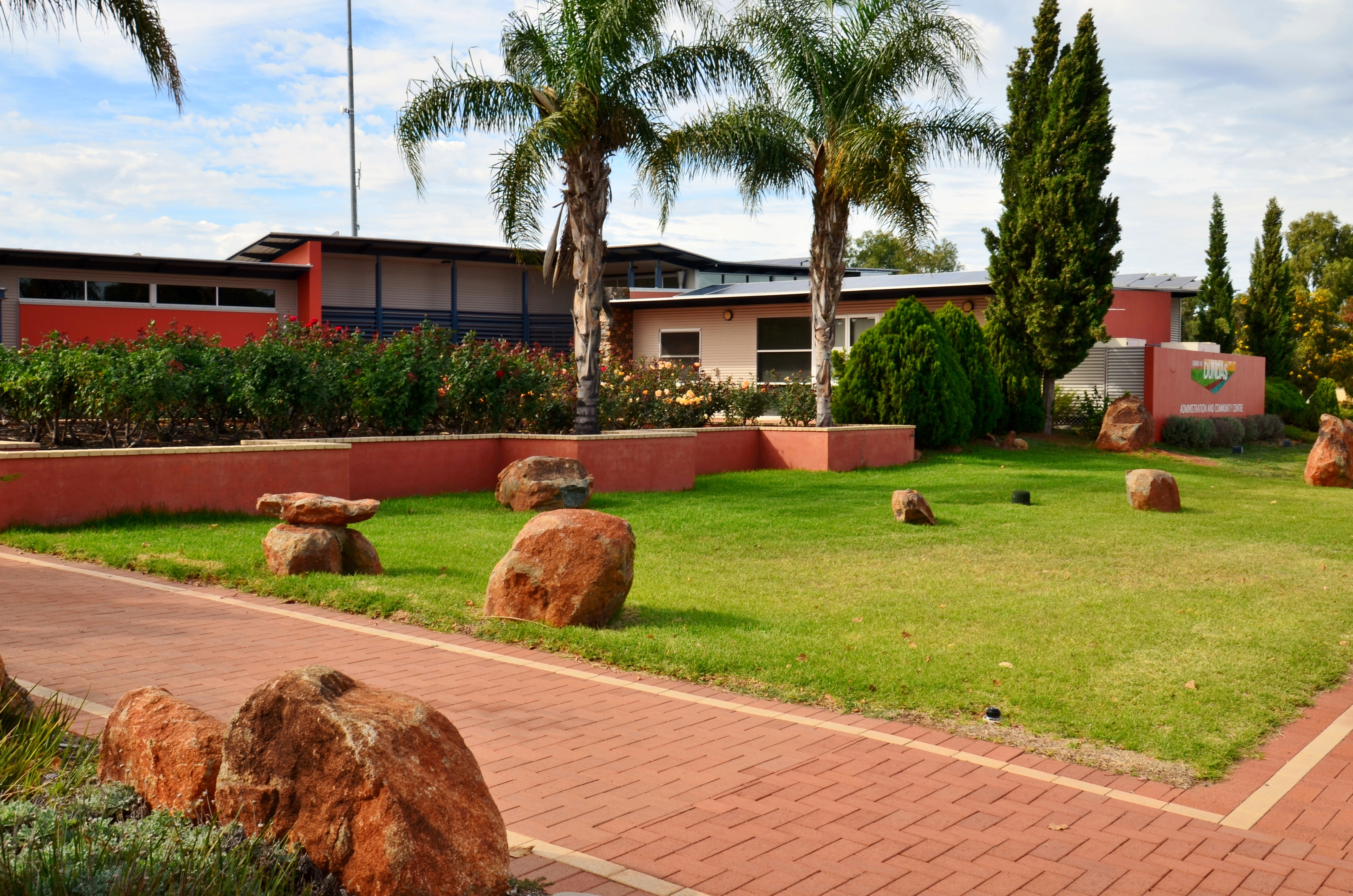 View of the Dundas Shire Office, 88-92 Prinsep Street, Norseman, Western Australia